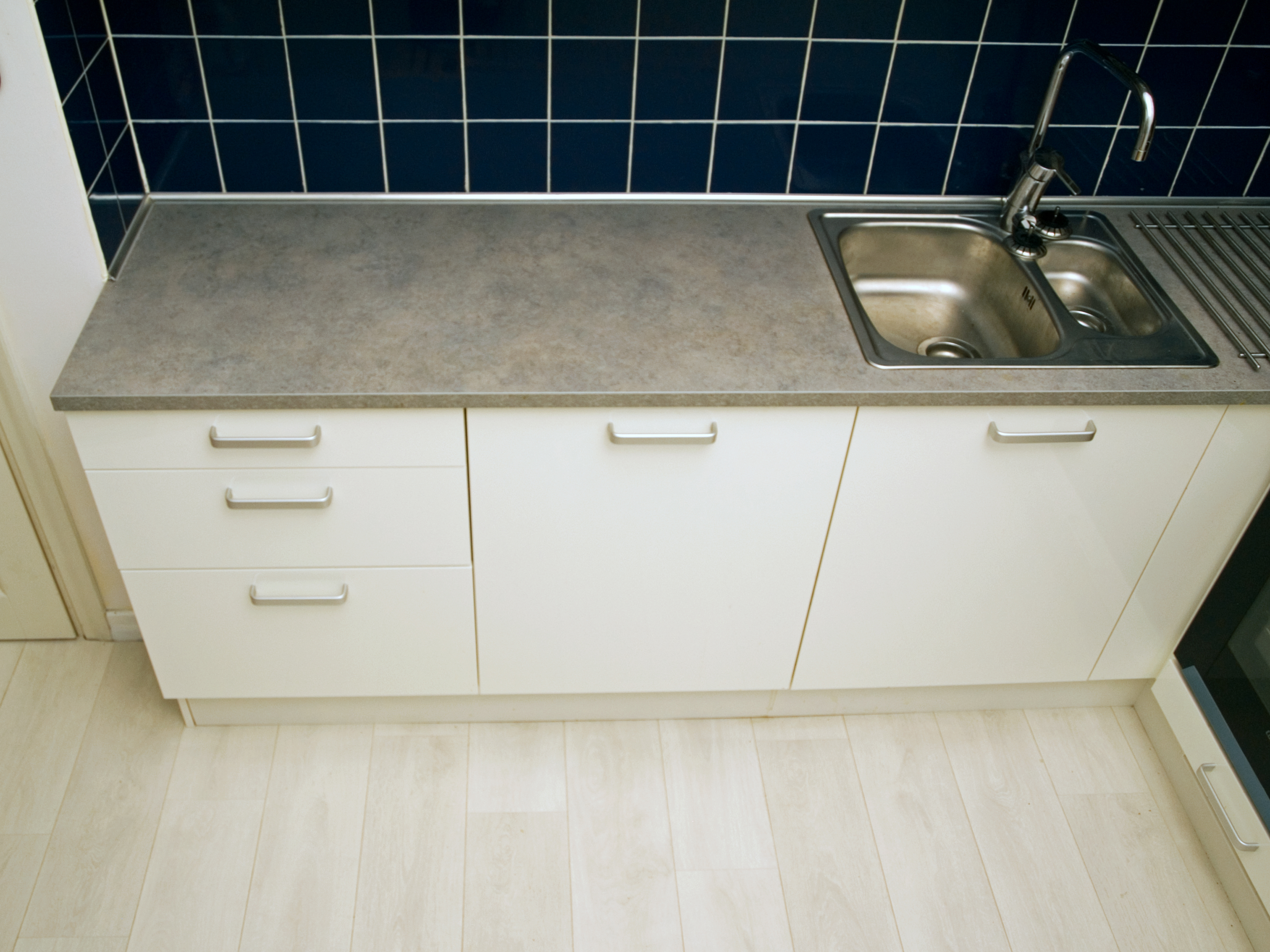 Lower cabinets and sink of a Scandinavian glossy white kitchen: set of drawers, integrated dishwasher, and under-the-sink cabinet.